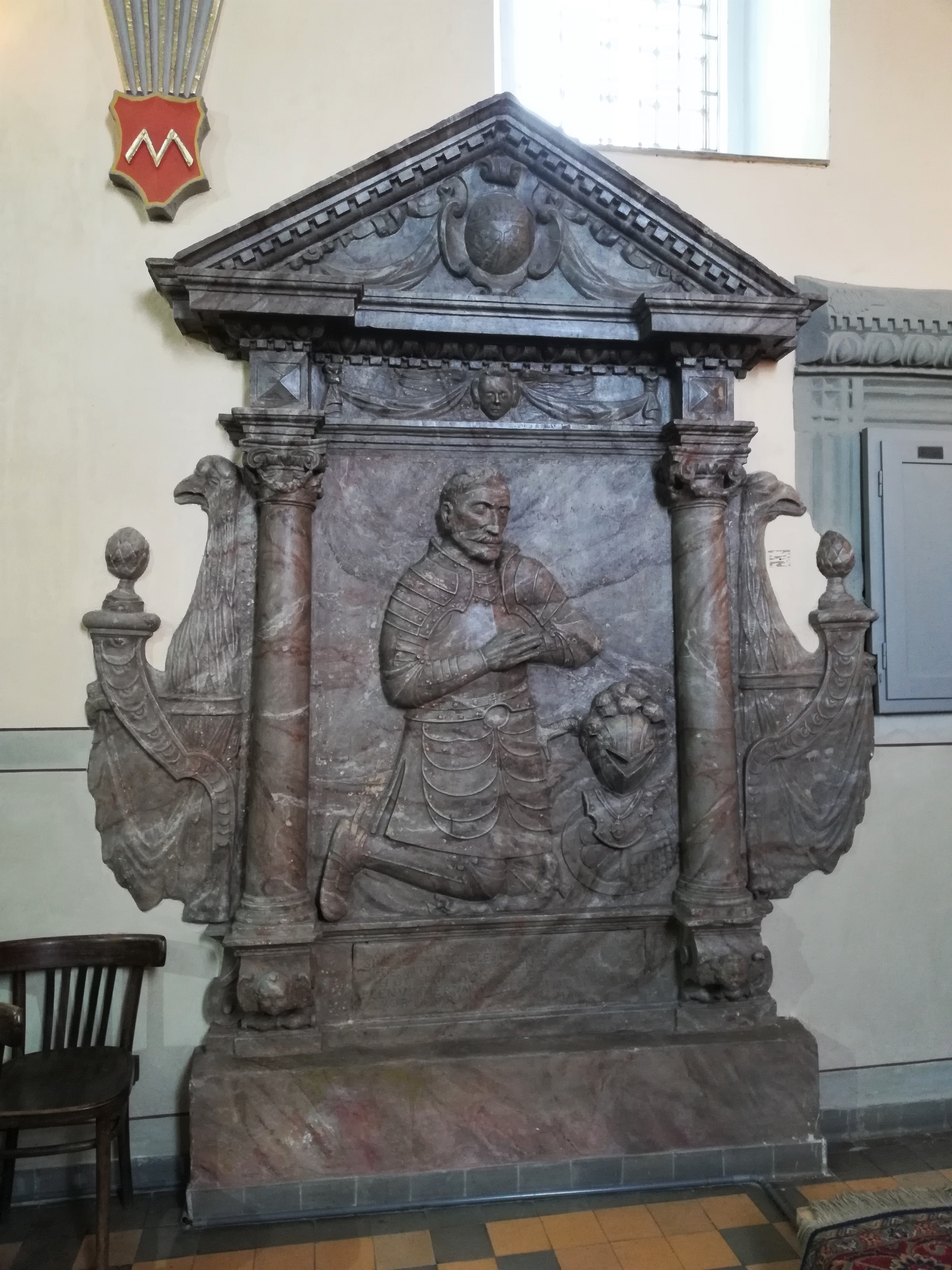 Church of St. Stanisława w Chlewiski - an epitaph of Wawrzyniec Chlewicki from 1613 in the presbytery.